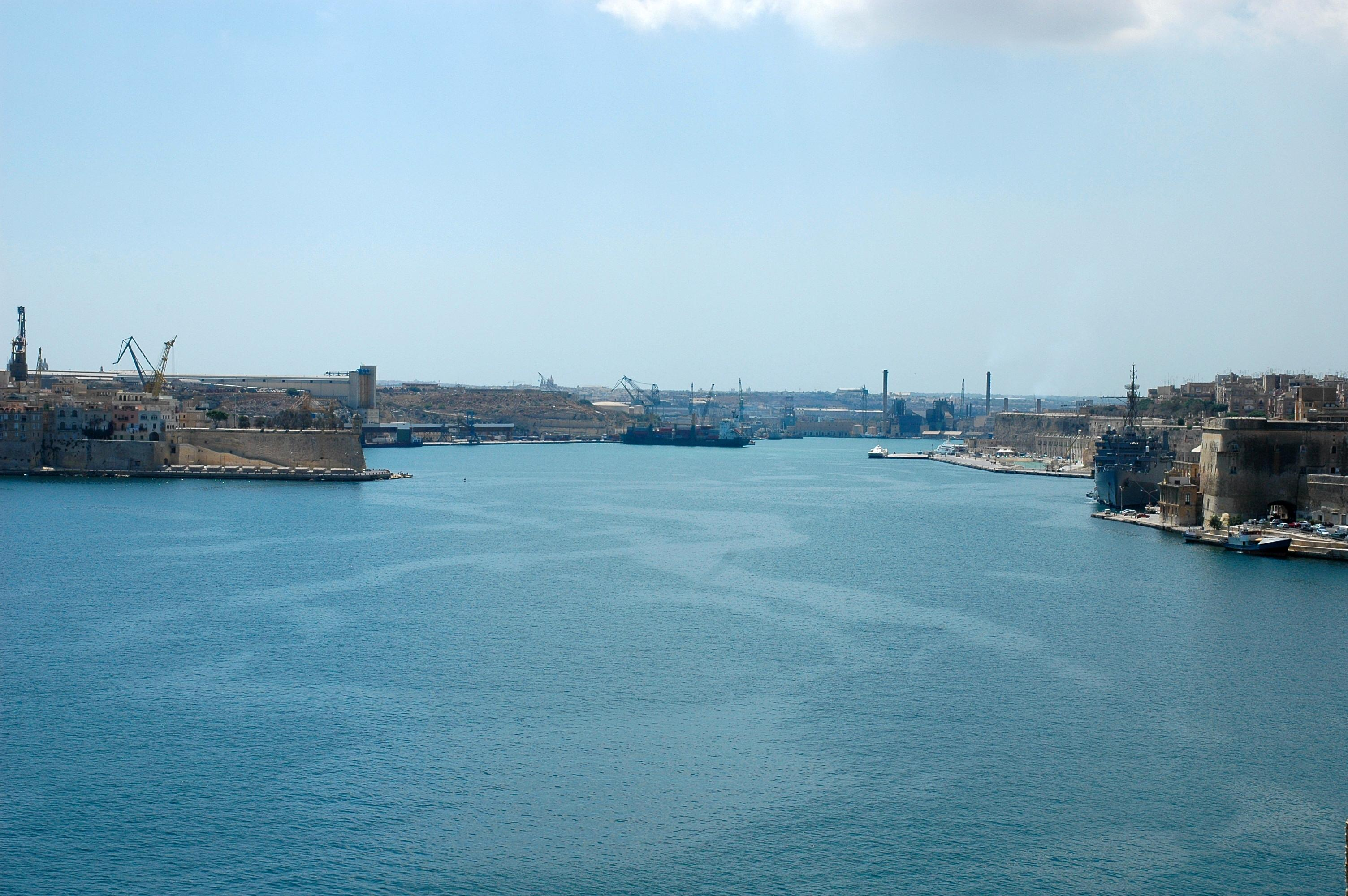 The Grand Harbour seen from the Upper Barakka Gardens, Valletta